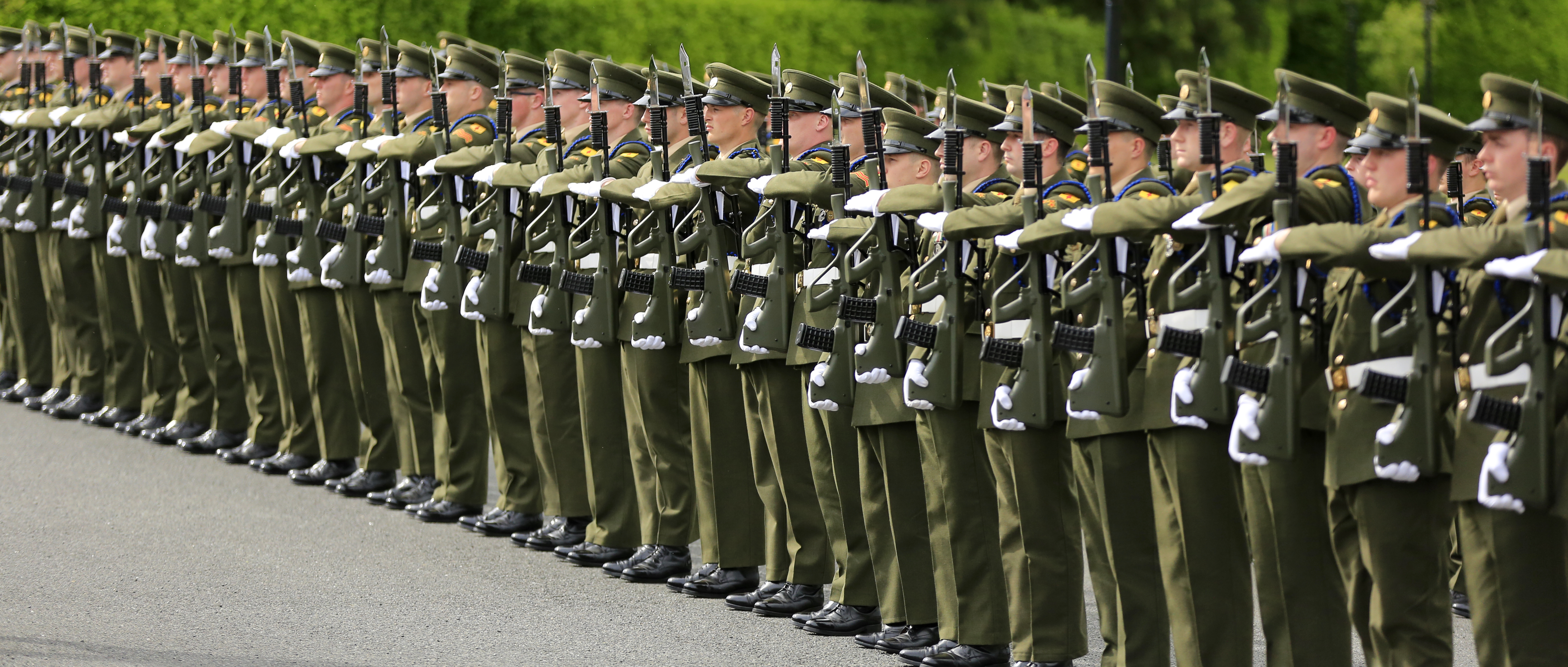 The 7 Inf Bn Guard of Honour